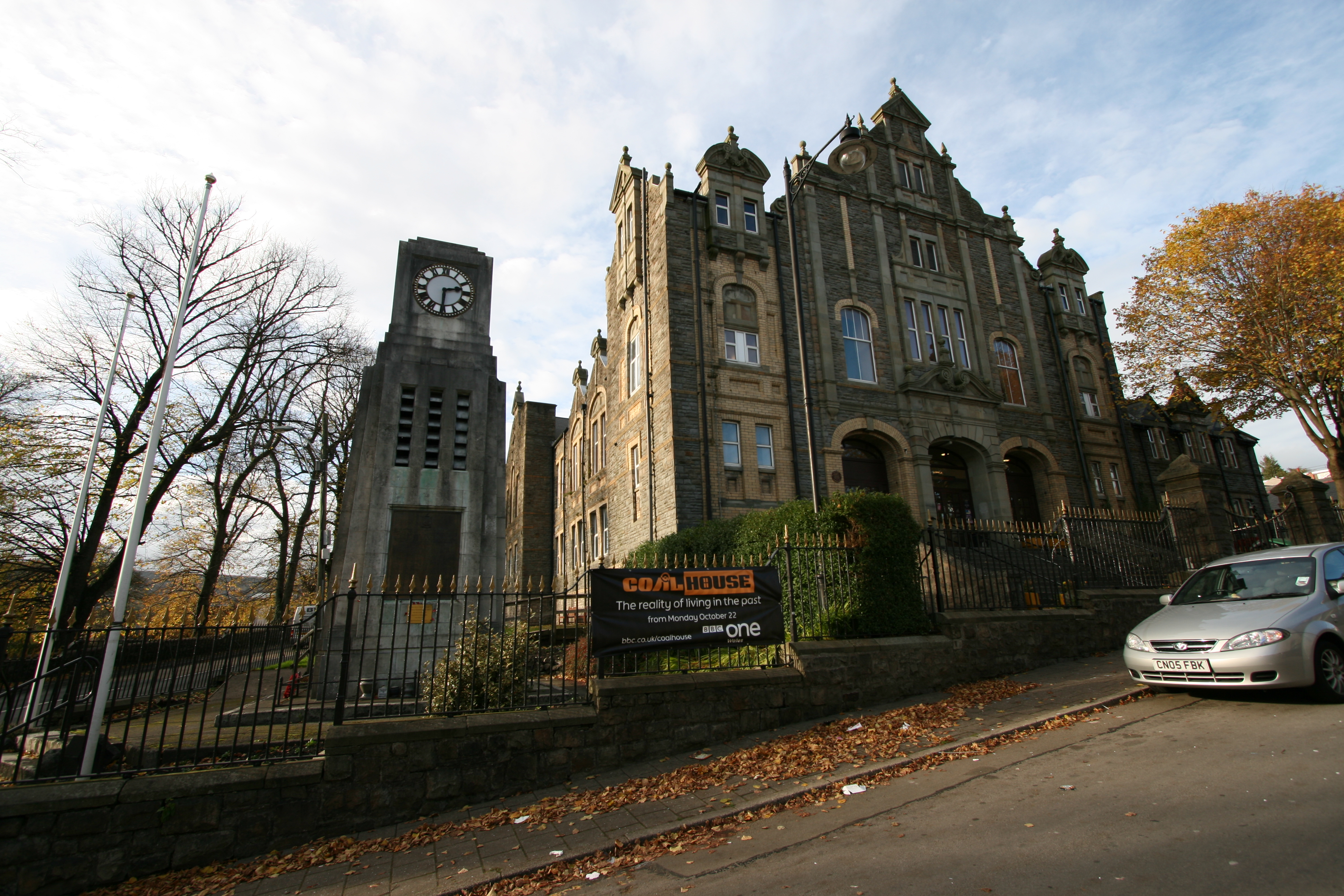 War Memorial and Workinmgen's Institute in Blaenavon, South Wales, UK